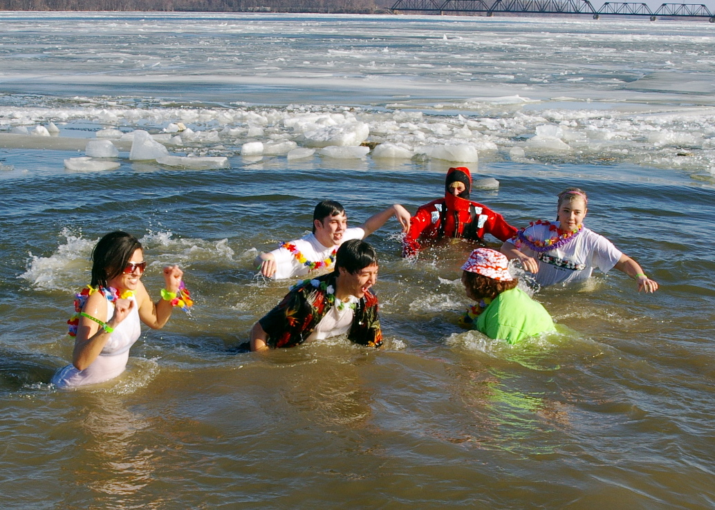 These Polar Bears were dressed for a beach in Hawaii but instead found themselves in the frigid waters of the Mississippi for a good cause. -Jessie Sanders, EAGLE 102